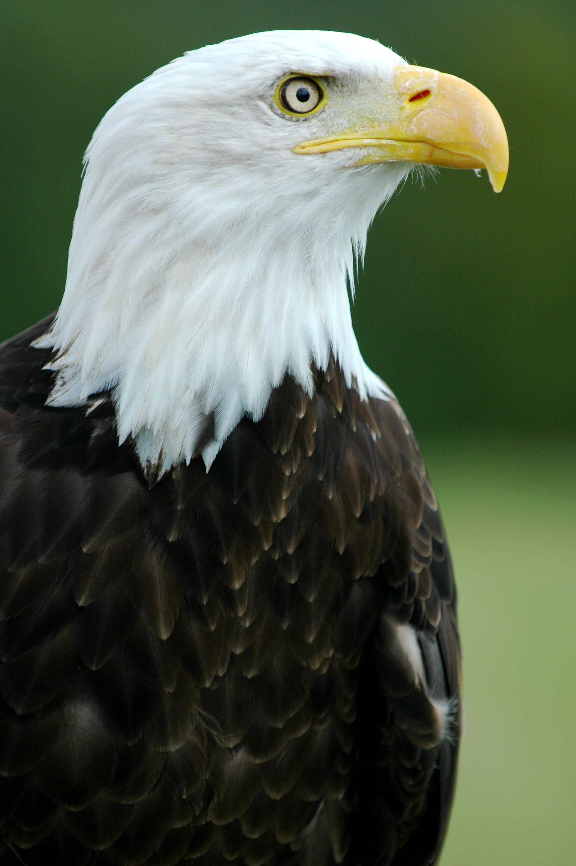 Bald eagle (Haliaeetus leucocephalus).